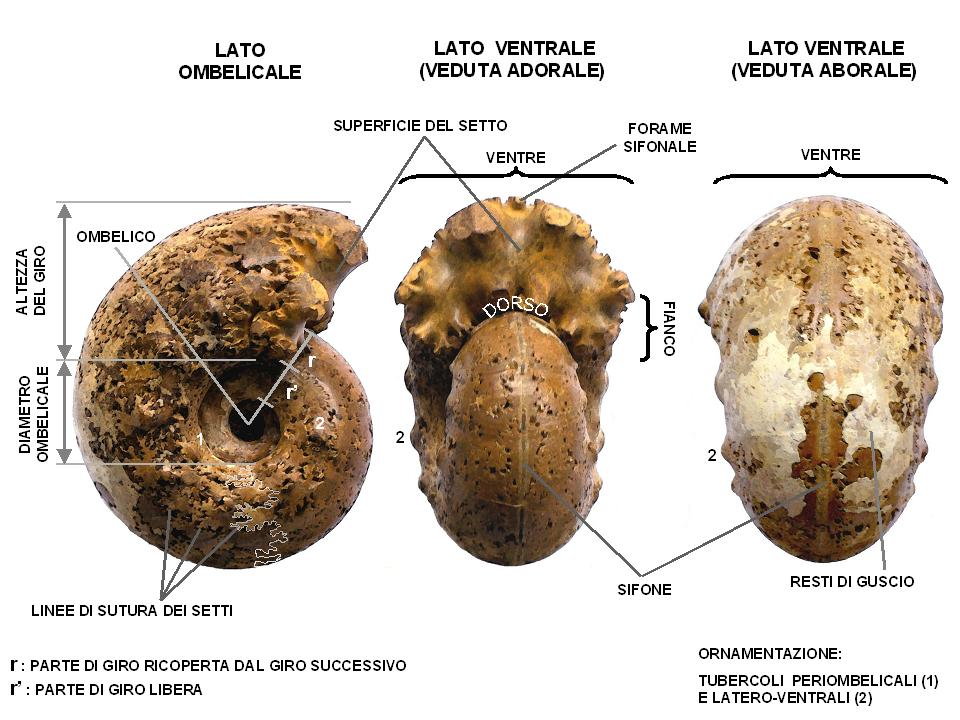 ammonite - morphology (technical terminology). text in italian